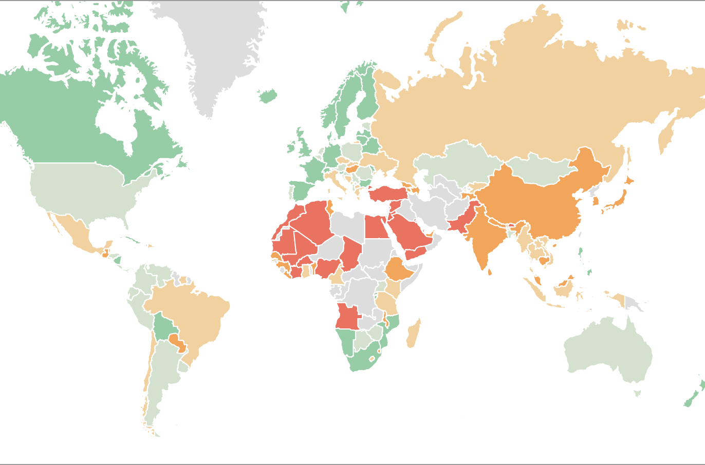 WEF report for gender gap by countries